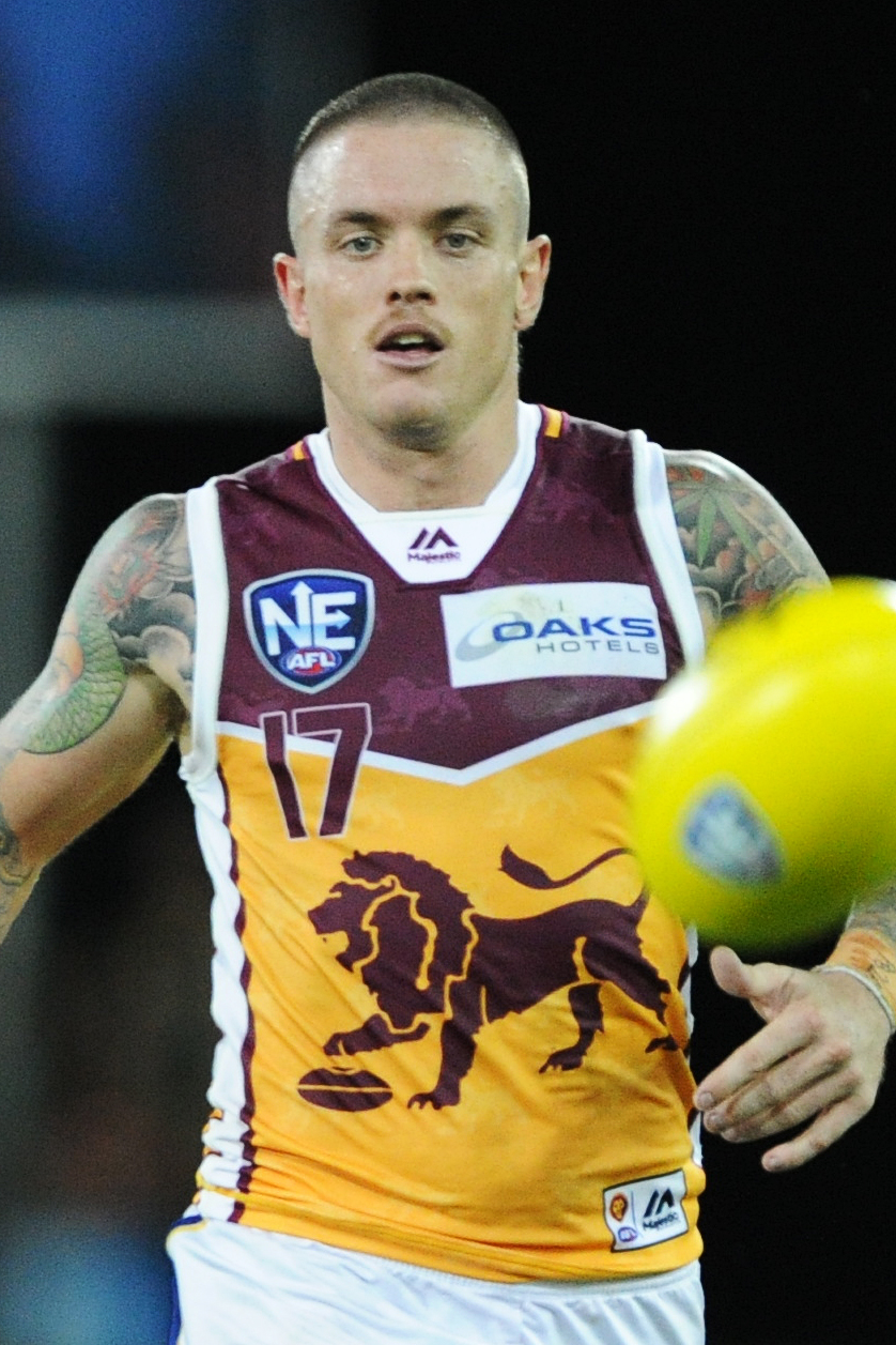 Claye Beams of the Brisbane Lions during the NEAFL round one match between NT Thunder and Brisbane Lions at TIO Stadium on 7 April 2018 in Darwin, Australia.